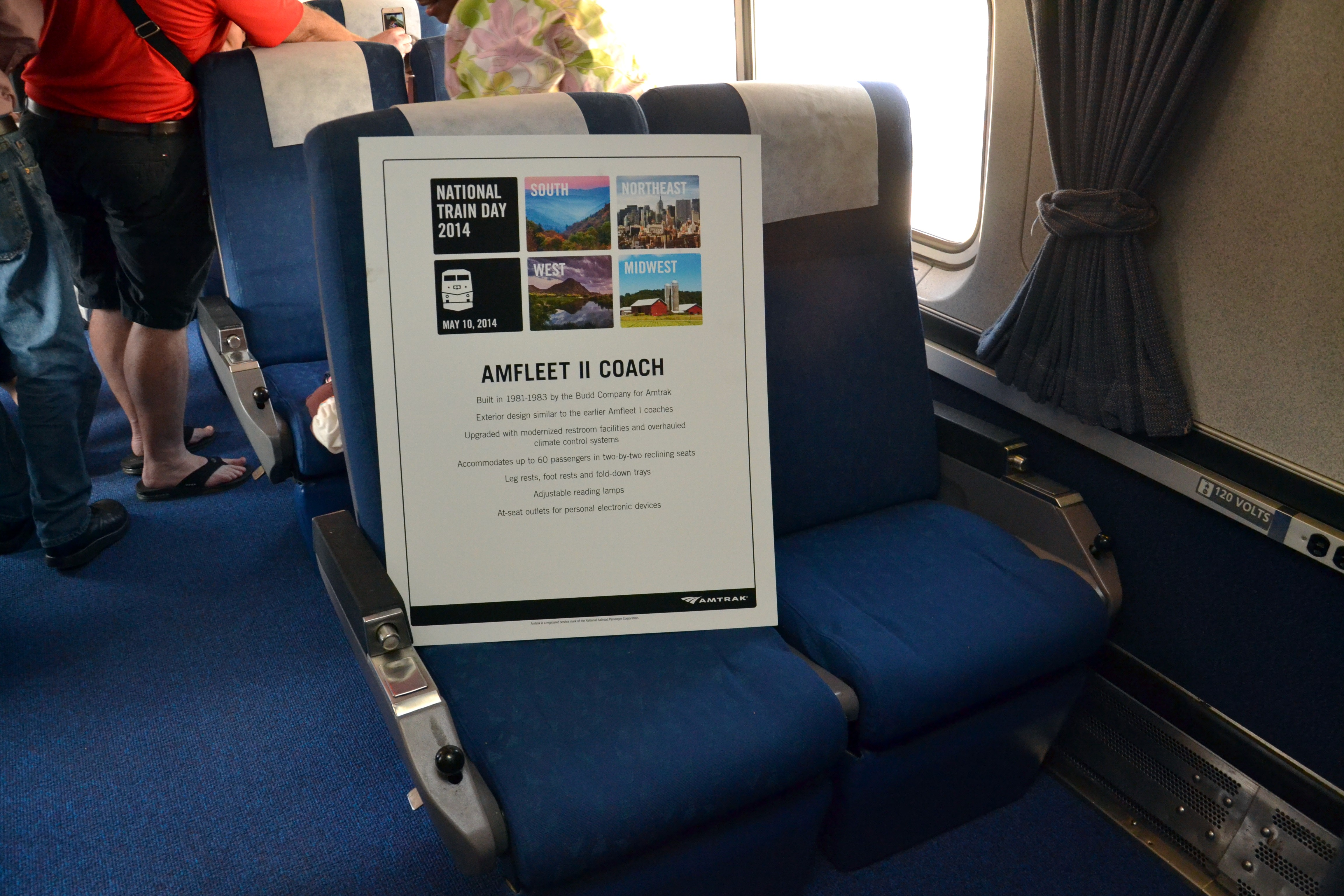 National Train Day is held each year to introduce the general public to trains and train history. This year it also was a way to celebrate the 75th anniversary of streamline passenger service to Florida so what better place to hold it than Tampa's historic Union Station. Amtrak still uses Tampa Union Station to host the Silver Star, which carries passengers between New York City and Miami.